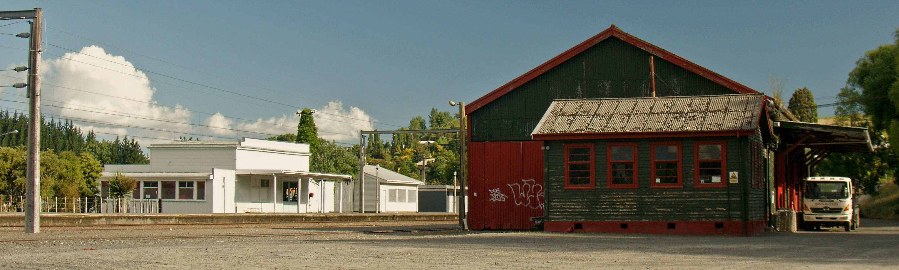 Taihape was a major railway marshaling yard until the late 1970s. In 1999 Tranz Rail demolished the historic Taihape Railway Station, which pre-dated the Main Trunk Line. The Refreshment Rooms still stand on the former station platform and also the old goods shed.